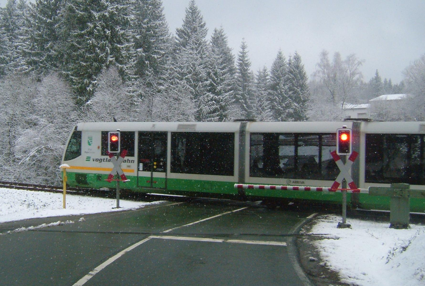 Duewag RegioSprinter at a level crossing near Schöneck in April 2008.